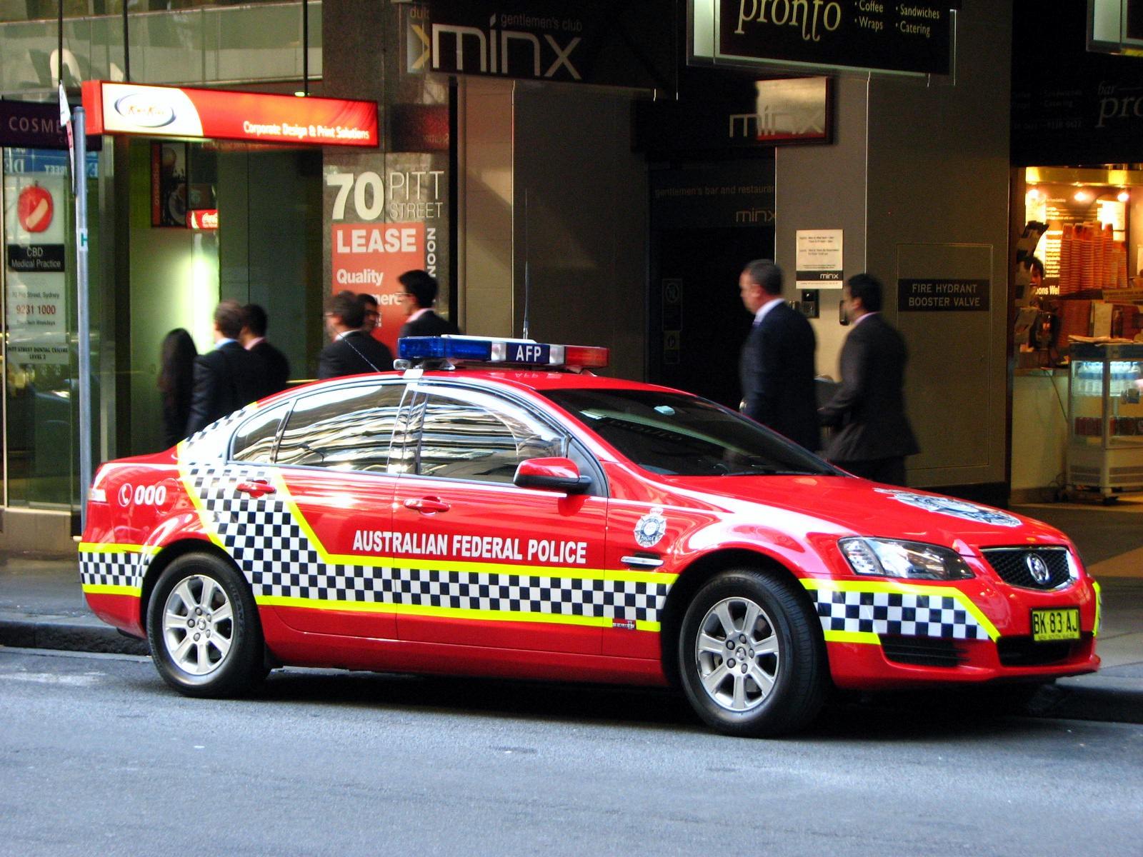 Assigned to diplomatic protection Sydney